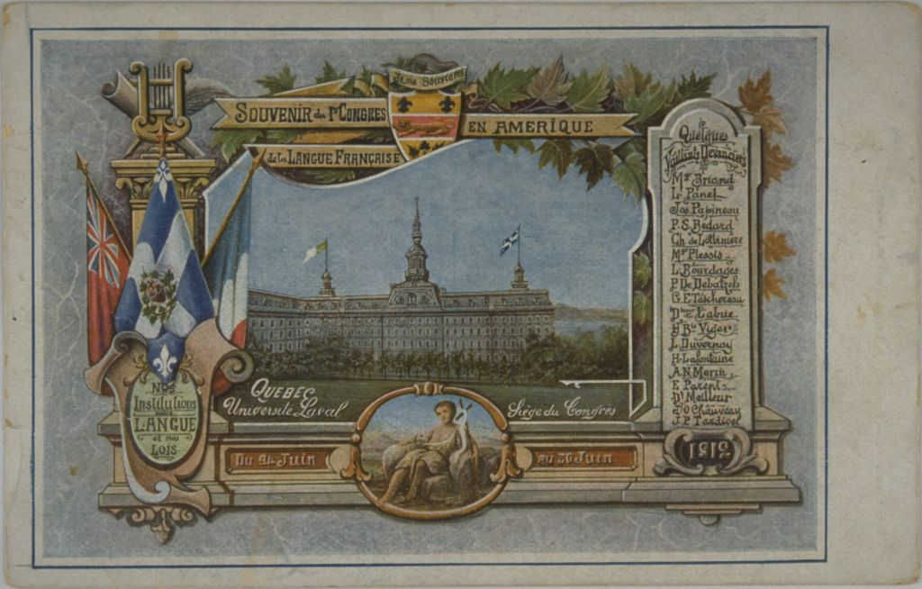 Postcard of the 1st Congress of the French Language in the Americas. Location of the Congress: Université Laval, Quebec City.